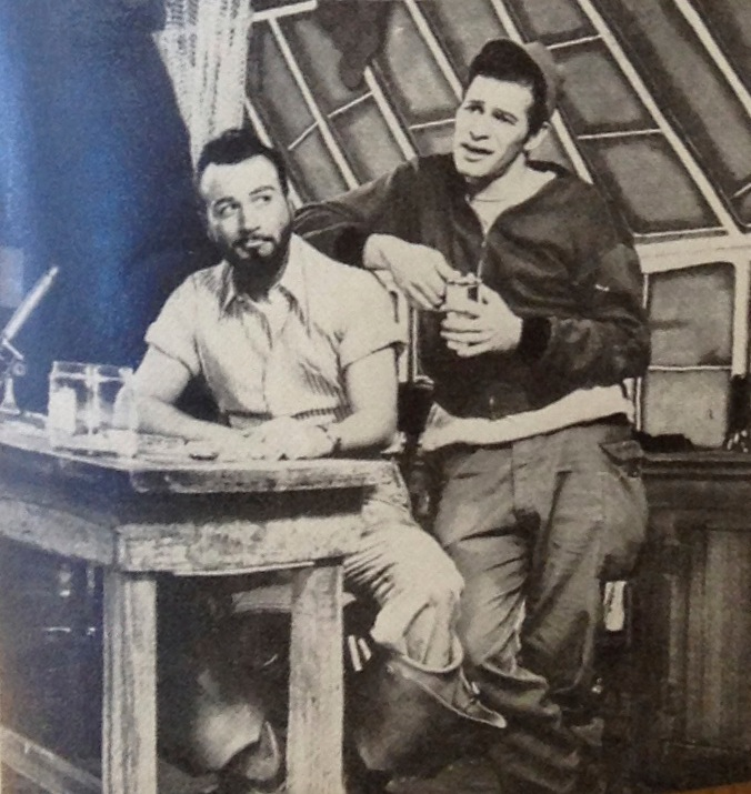 Program cover for Pipe Dream